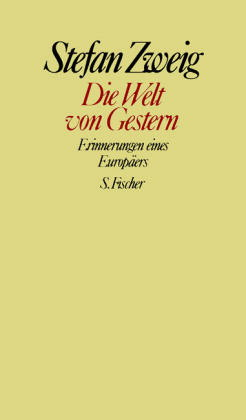 Book cover of Stefan Zweig Die Welt von gestern 1942